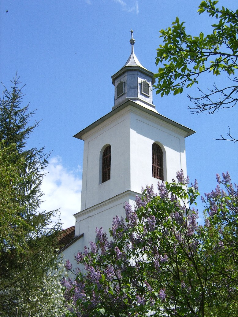 Reformed church of Săula, Transylvania